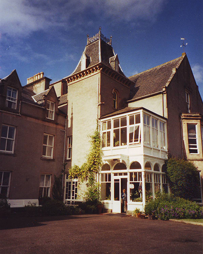 English